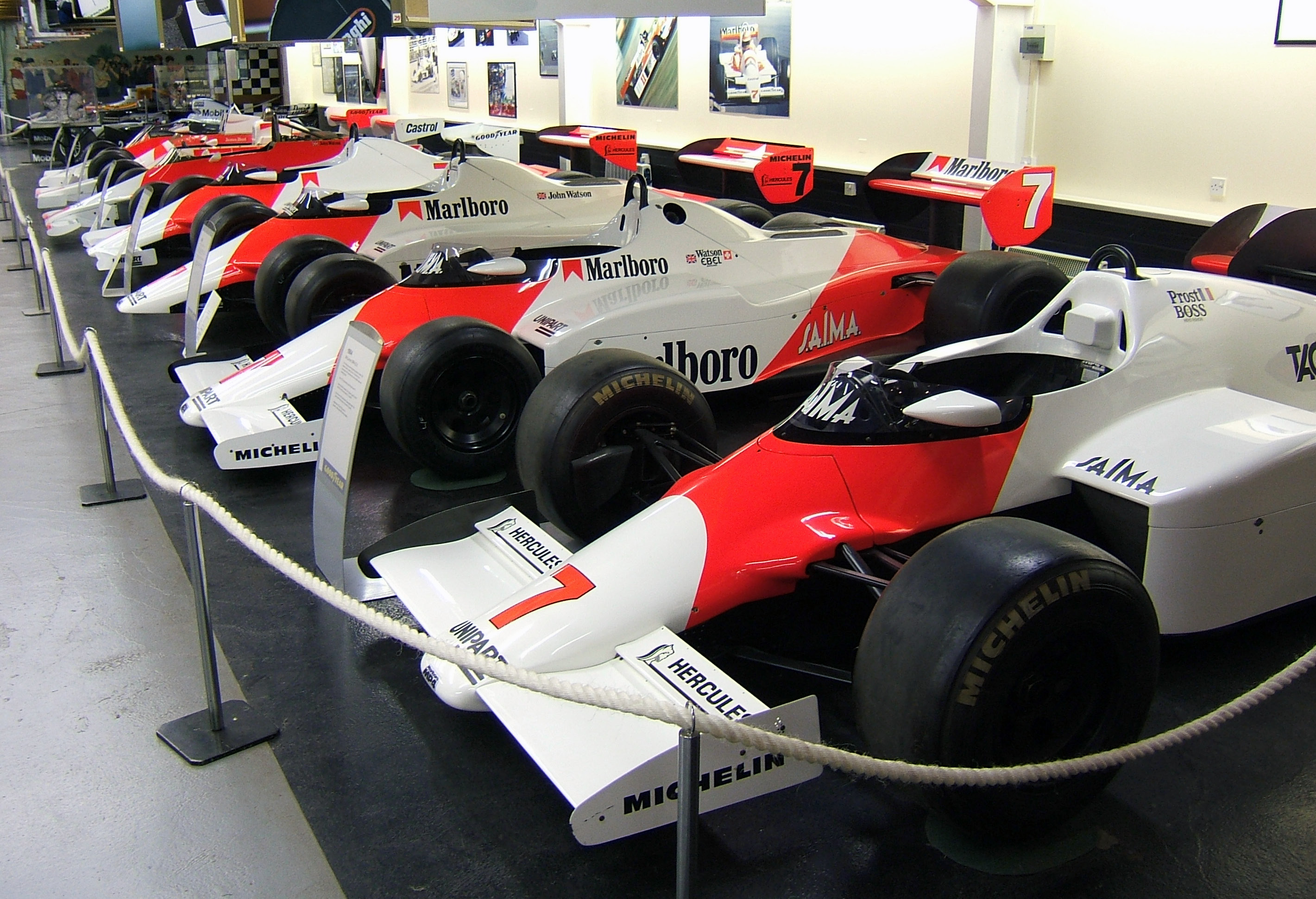 Approximately half of the Donington Grand Prix Collection's McLaren collection.